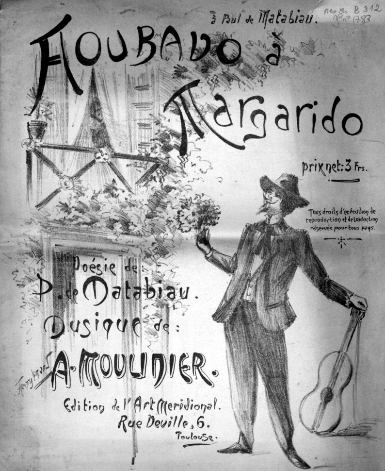 Coverpage of the Occitan song Aubada a Margarida by Anfós Molinièr